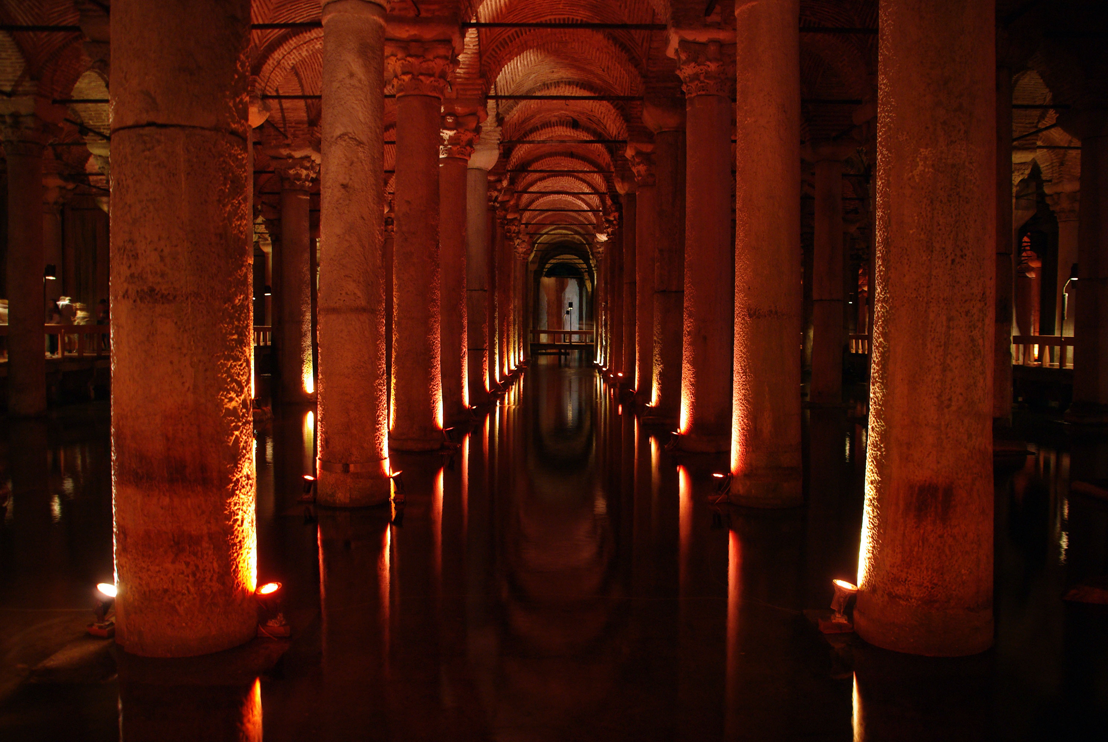 The Basilica Cistern in Istanbul, Turkey, built by Justinian in 532 AD.